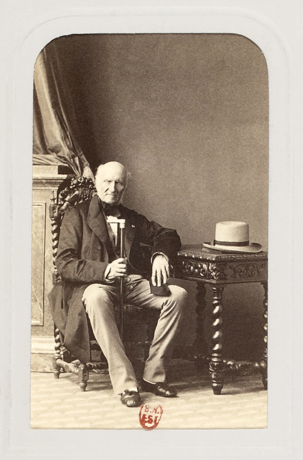 Élie, duc Decazes (1780-1860), french Prime Minister of king Louis XVIII in 1820, during the Second Restoration.